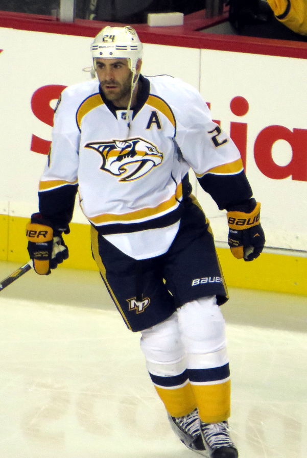 Nashville Predators forward Eric Nystrom prior to to a National Hockey League game against the Calgary Flames.